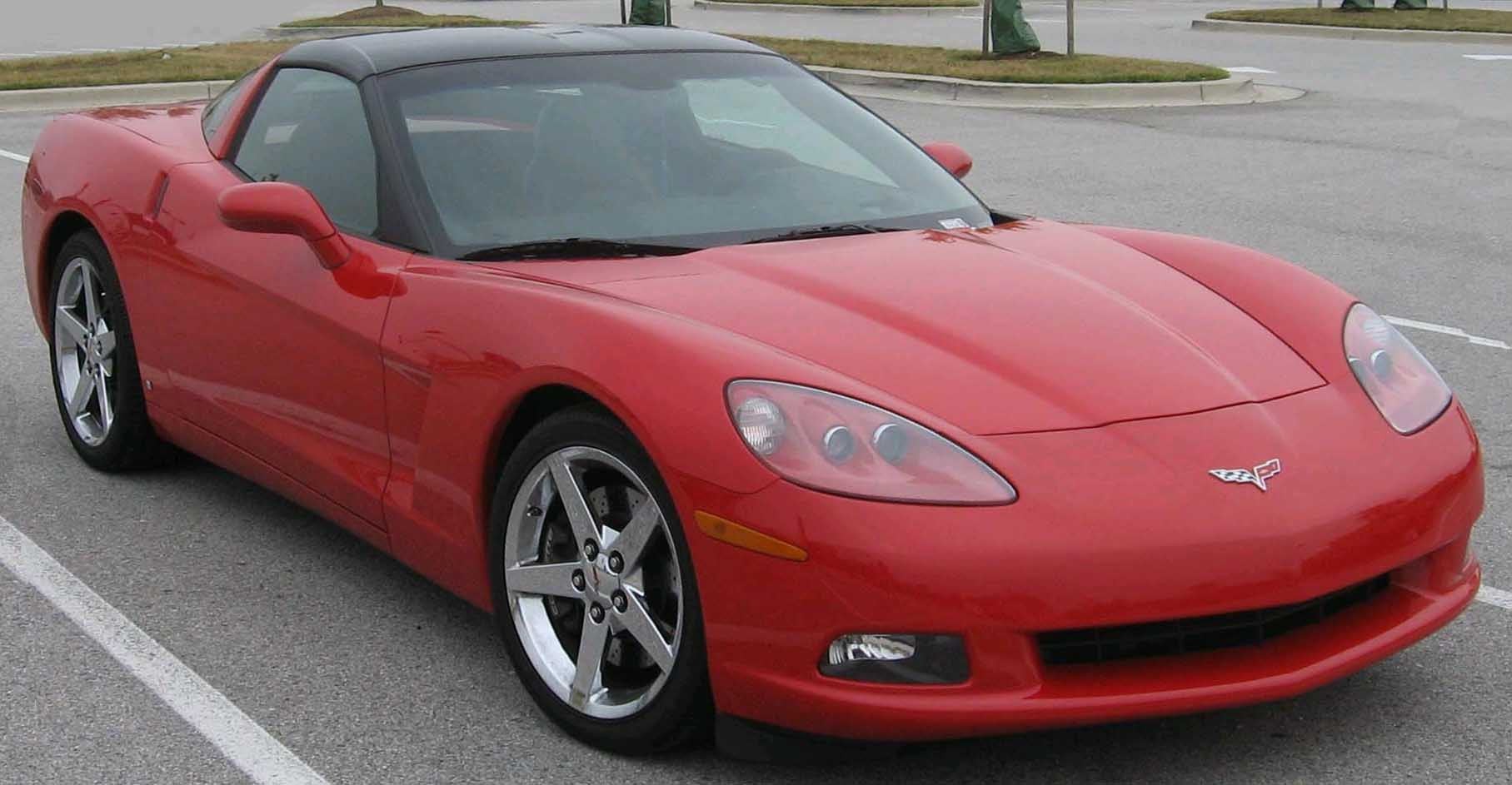 2005-2007 Chevrolet Corvette photographed in College Park, Maryland, USA.